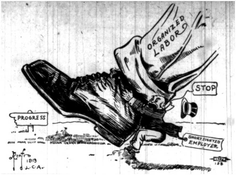 Political cartoon published in the Seattle Union Record from 1913 depicting organized labor moving forward towards progress, while a shortsighted employer is trying to stop organized labor's march forward.